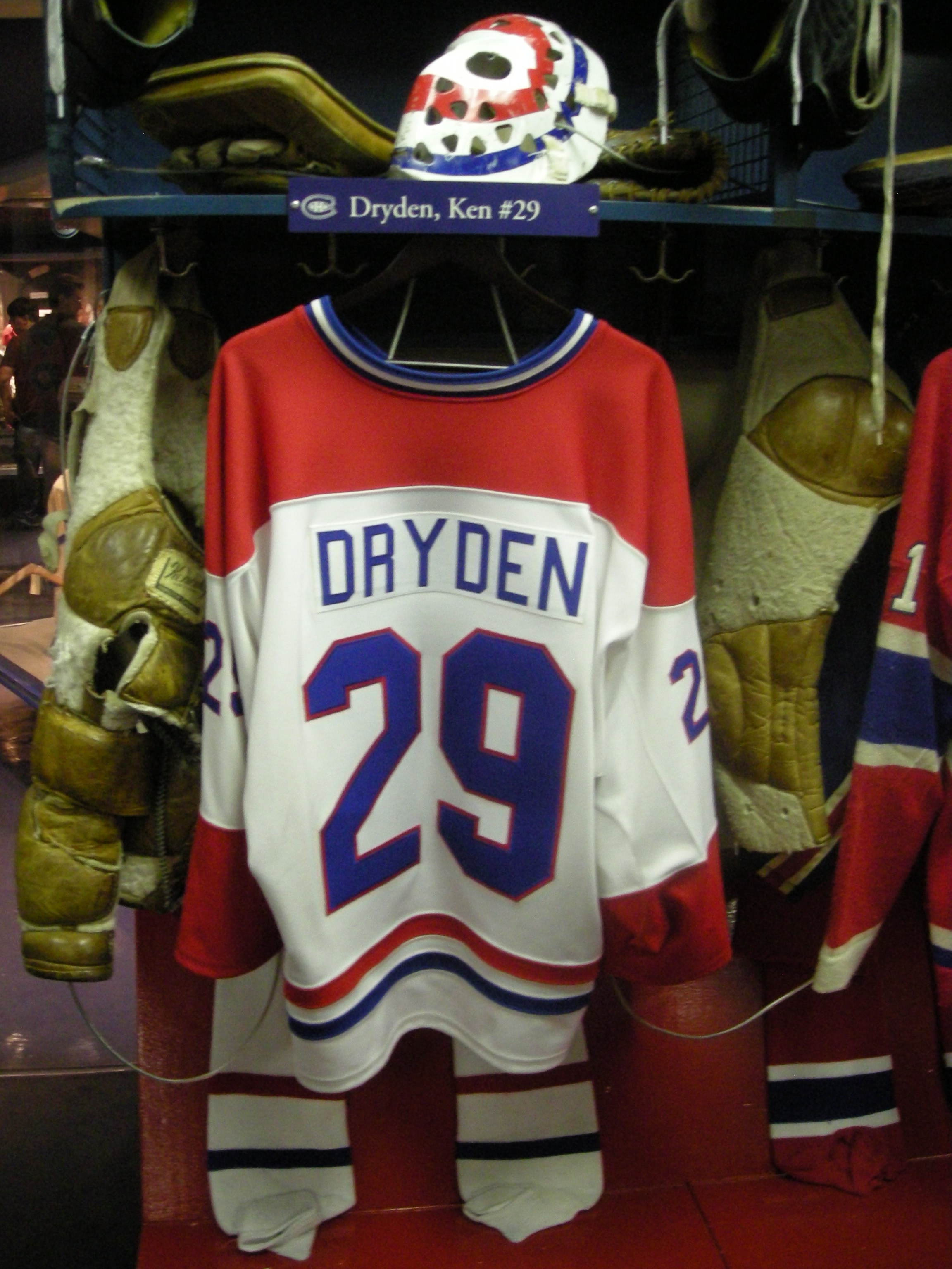 Ken Dryden's jersey and mask in the replica of the Montreal Canadiens dressing room at the Hockey Hall of Fame in Toronto, Ontario (Canada).